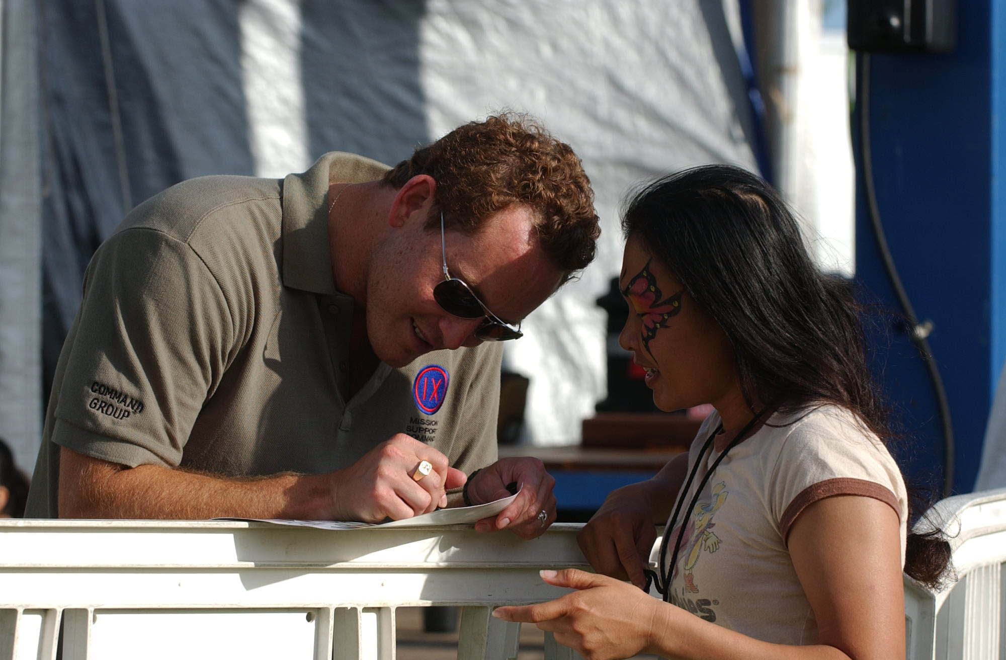 American actor Cole Hauser, master of ceremonies at the 9th Mission Support Command Spring Festival, signs an autograph for a young fan